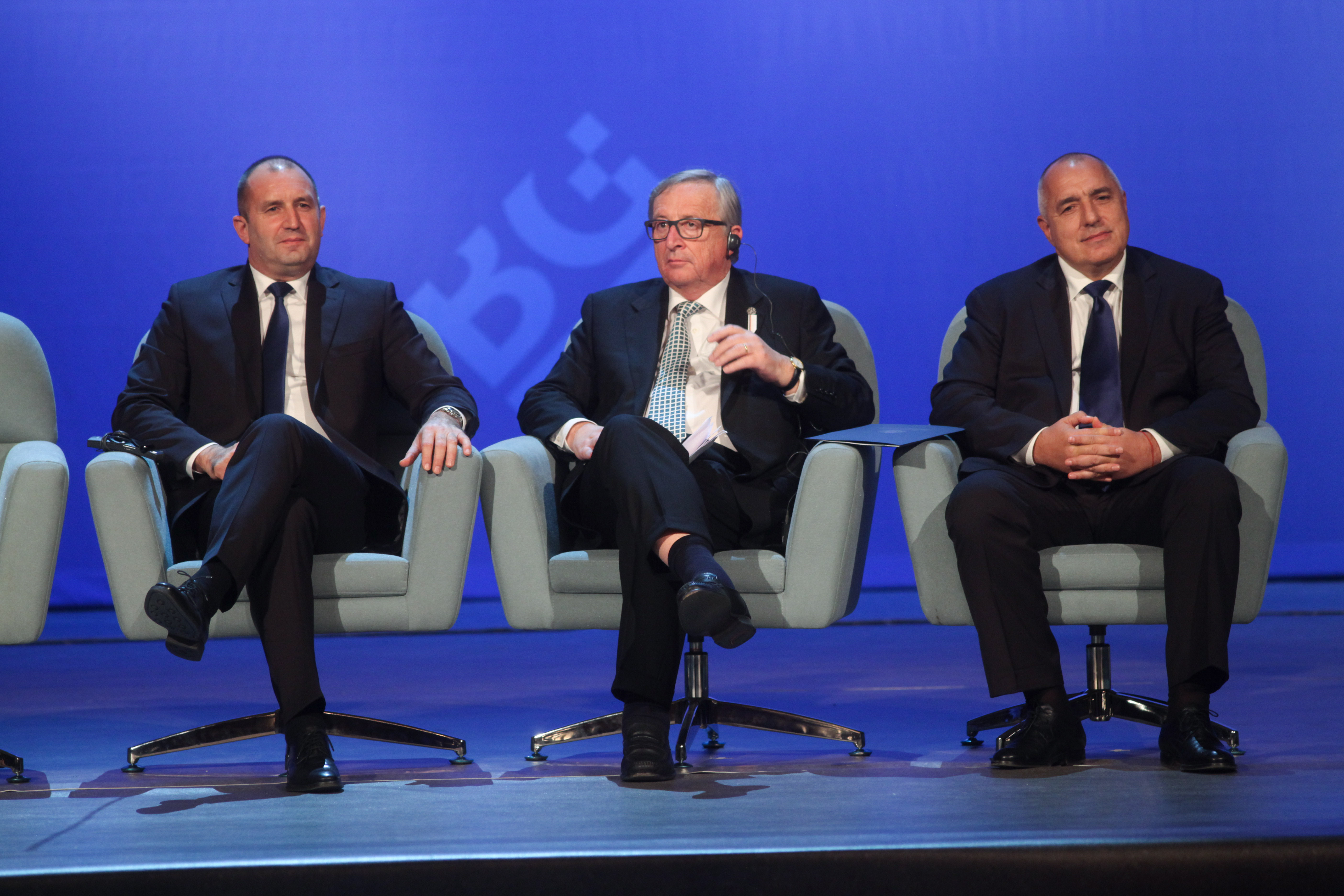 Rumen Radev, President of the Republic of Bulgaria (left), Jean-Claude Juncker, President of the European Commission (center), Boyko Borissov, Prime Minister of Bulgaria (right) Photo: Plamen Stoimenov (EU2018BG)